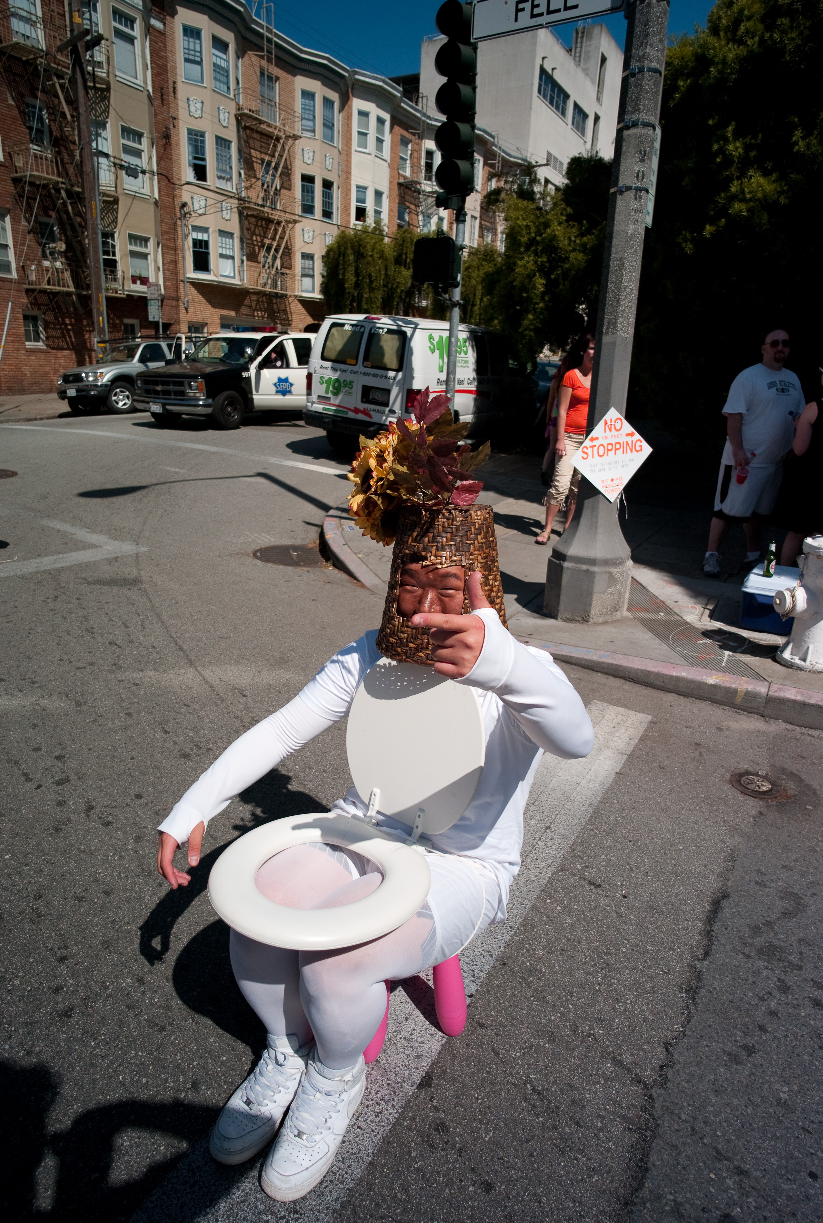 Bay to Breakers toilet costumer!